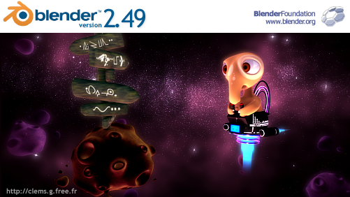 Screenshot of Blender 2.49. The opening screen was made by weilynnCG.